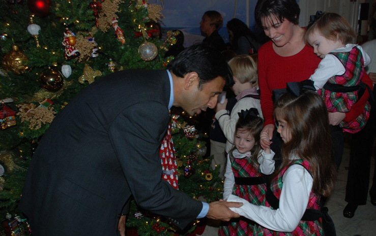 Louisiana Governor Bobby Jindal greets children of deployed Louisiana National Guard Soldiers at a ceremonial Christmas tree lighting at the Governor's Mansion in Baton Rouge, La., Dec. 5. The children were presented with coloring books and had their pictures taken with the Governor and Santa Claus.